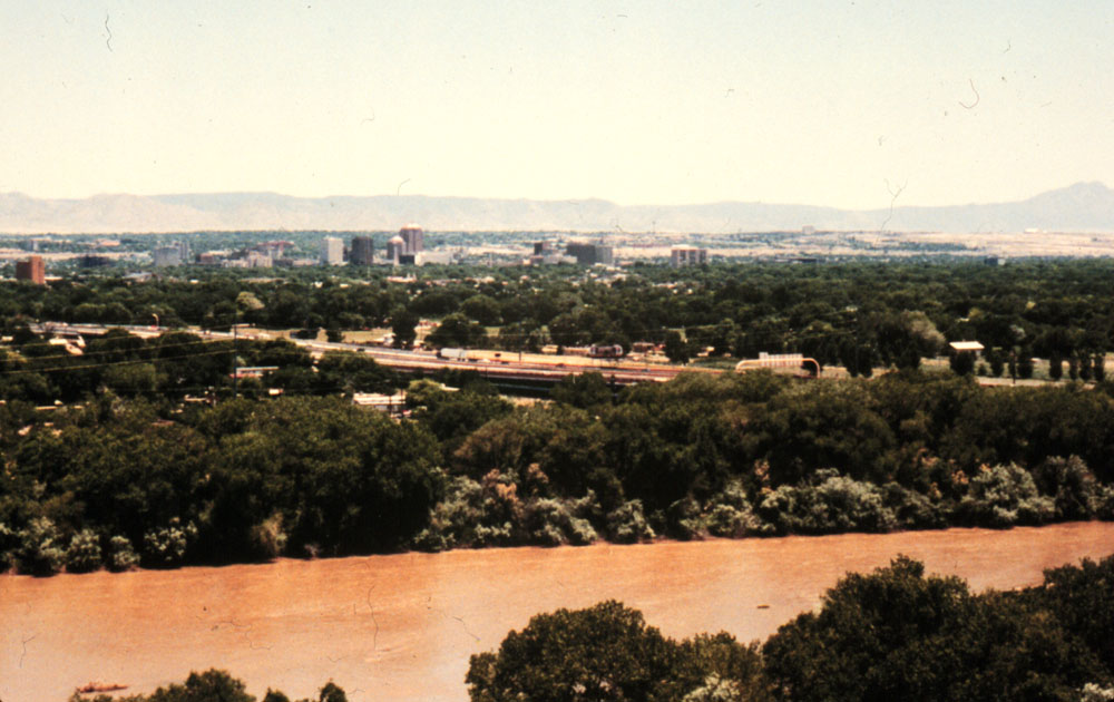 Photo of Albuquerque and the Rio Grande river.